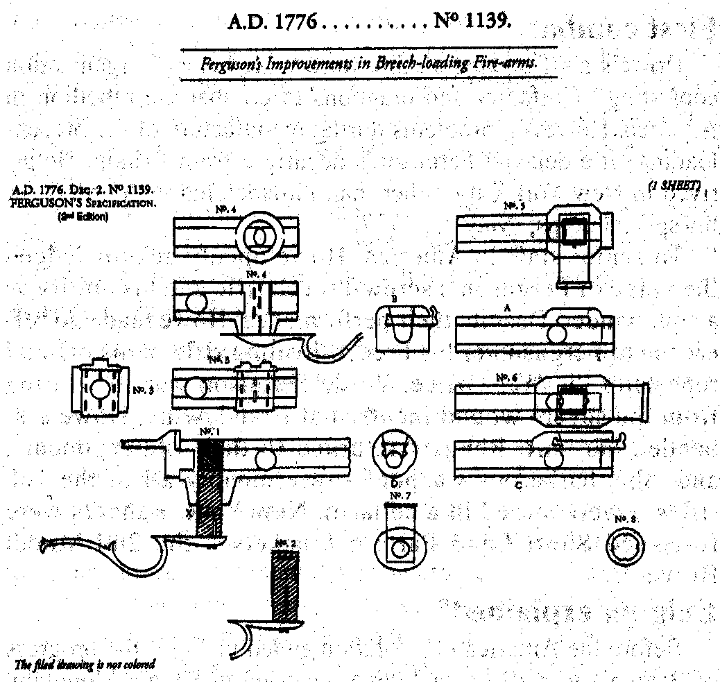 Patent drawing of the breech of Ferguson rifle